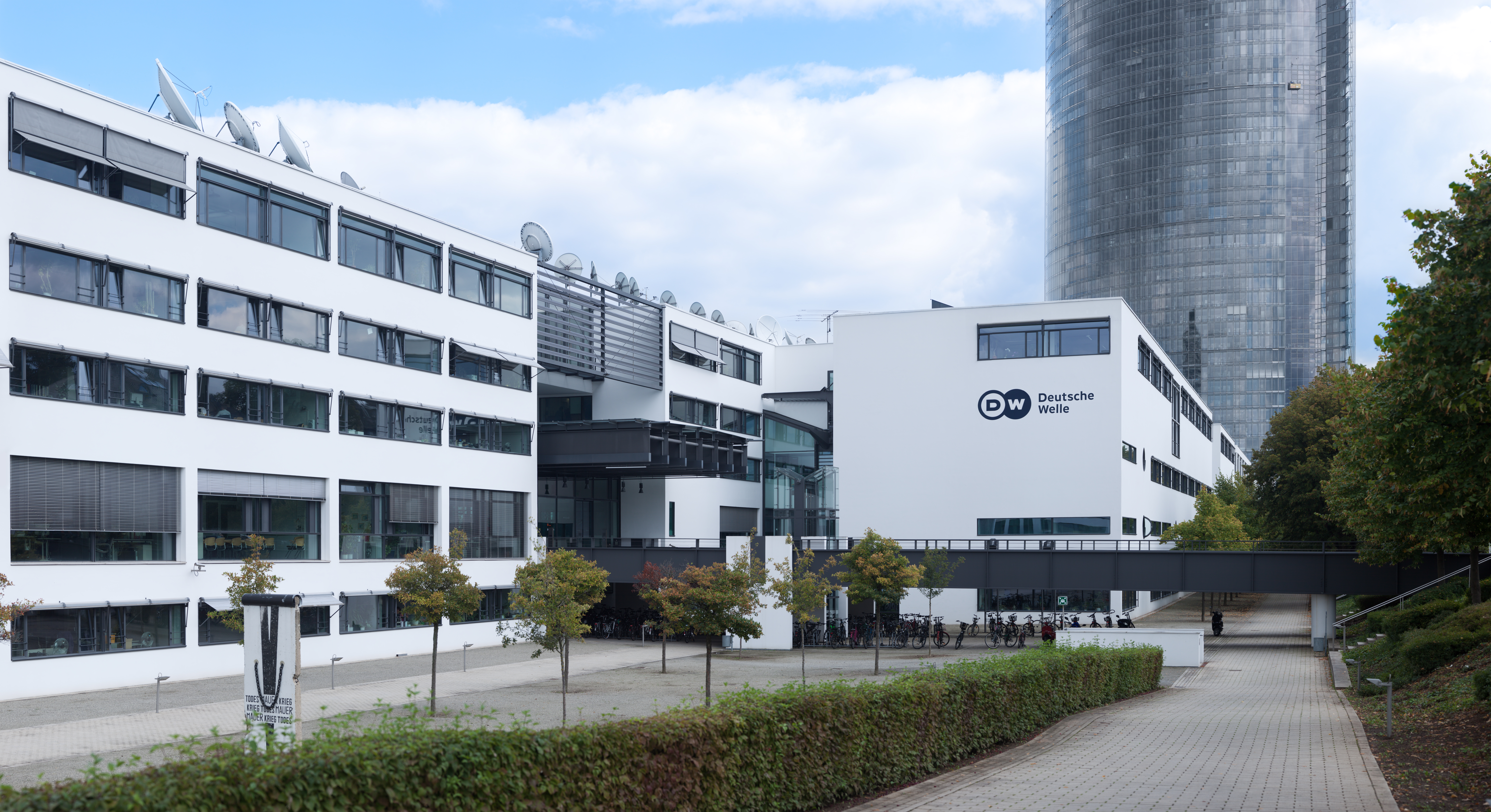 Place of Deutsche Welle in Bonn, Schürmann-Bau.